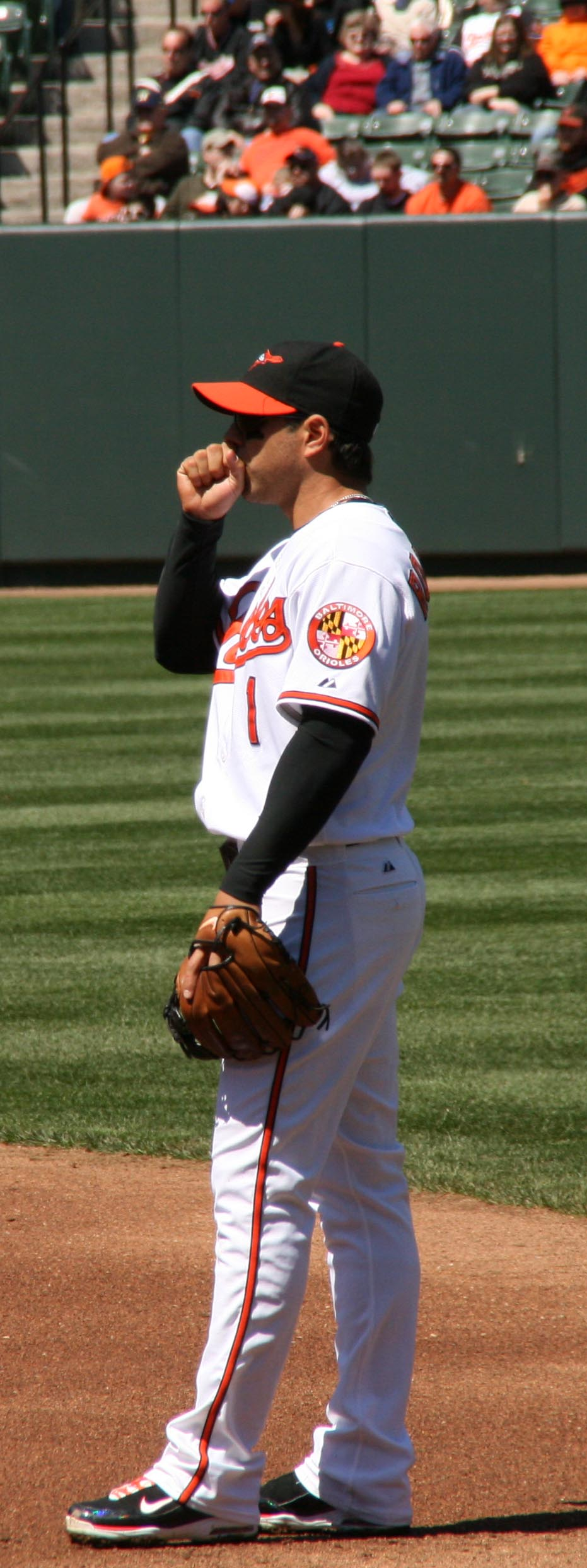 Description brian roberts Dateapril 12 2009SourceI created this work entirely by myself.Author«Marylandstater» «reply» 21:22, 12 April 2009 . . Marylandstater . . 931×2,484 (217 KB) brian roberts